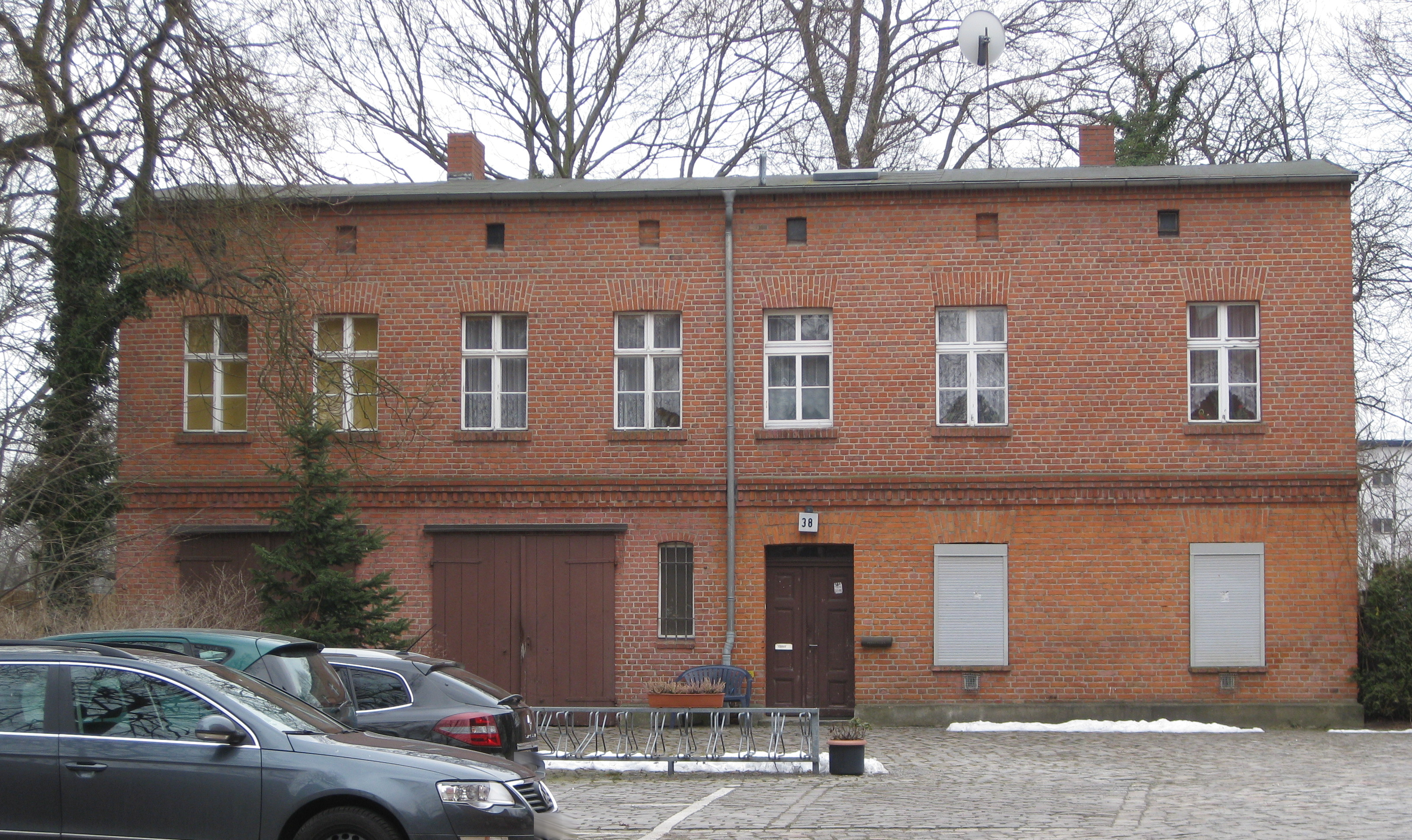 The facade of the former community prison on the estate Alt-Reinickendorf 38.